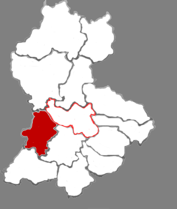 Location of Liulin county in Lüliang City, China